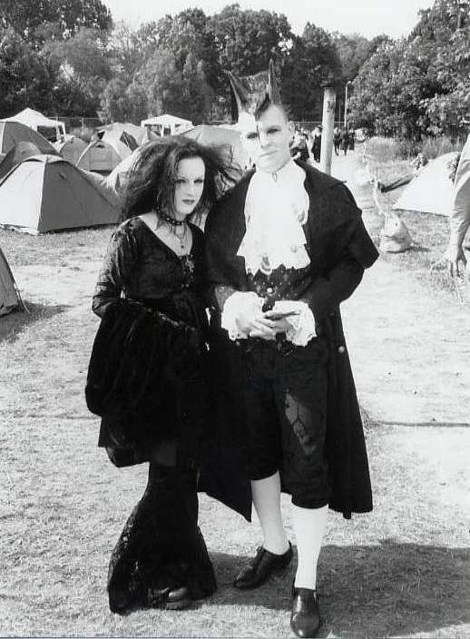 Wave Gothic Treffen, a gothic festival in Germany. Here are the typical attenders.